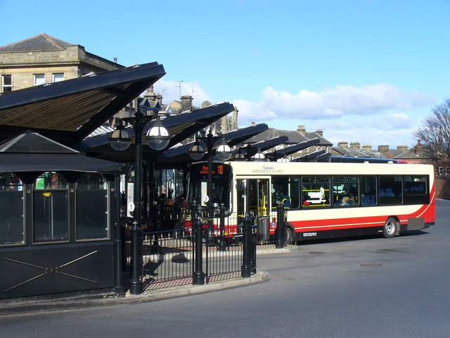 Harrogate Bus Station Centrally located, adjacent to railway station and Victoria Shopping Centre - forming part of a good local transport hub.